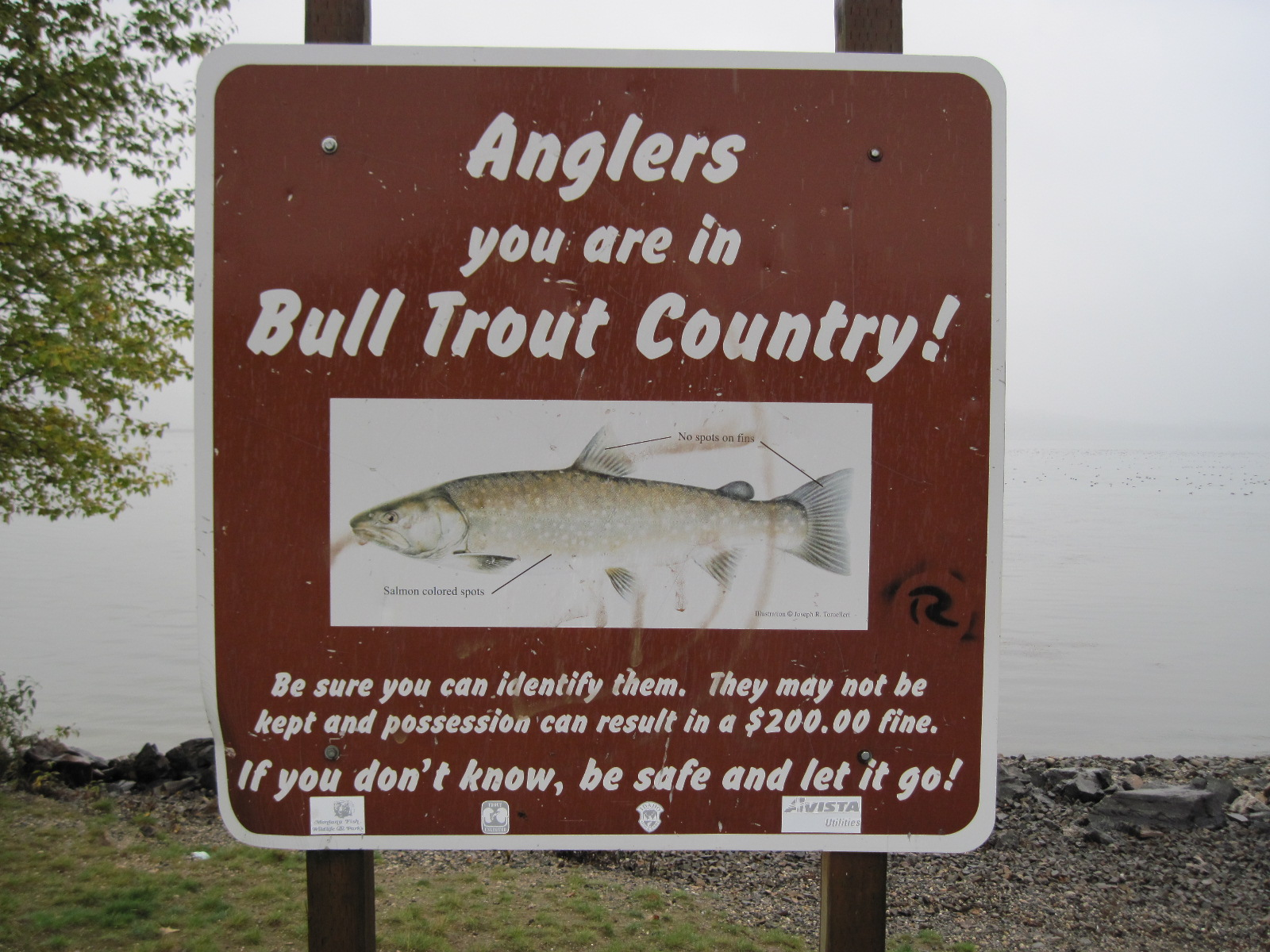 Sign for anglers regarding protection of bull trout (Salvelinus confluentus), Lake Pend Oreille, Sandpoint, Idaho